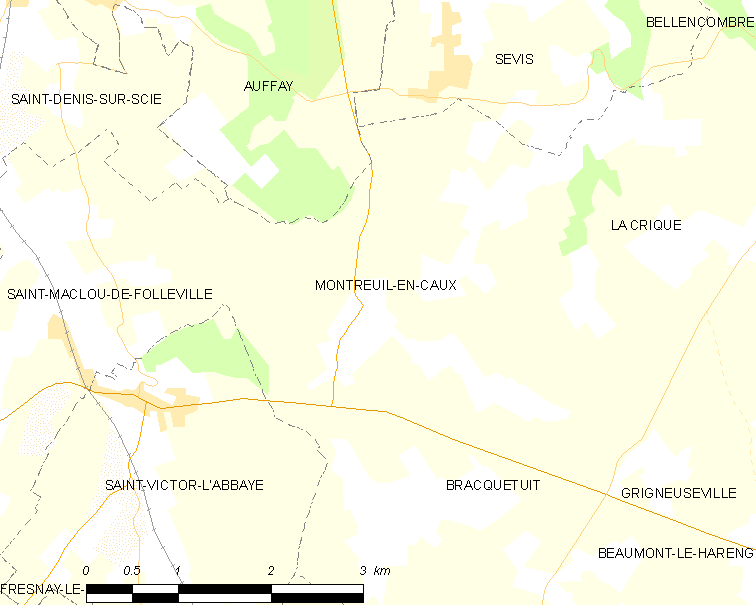 Map of French municipality Montreuil-en-Caux